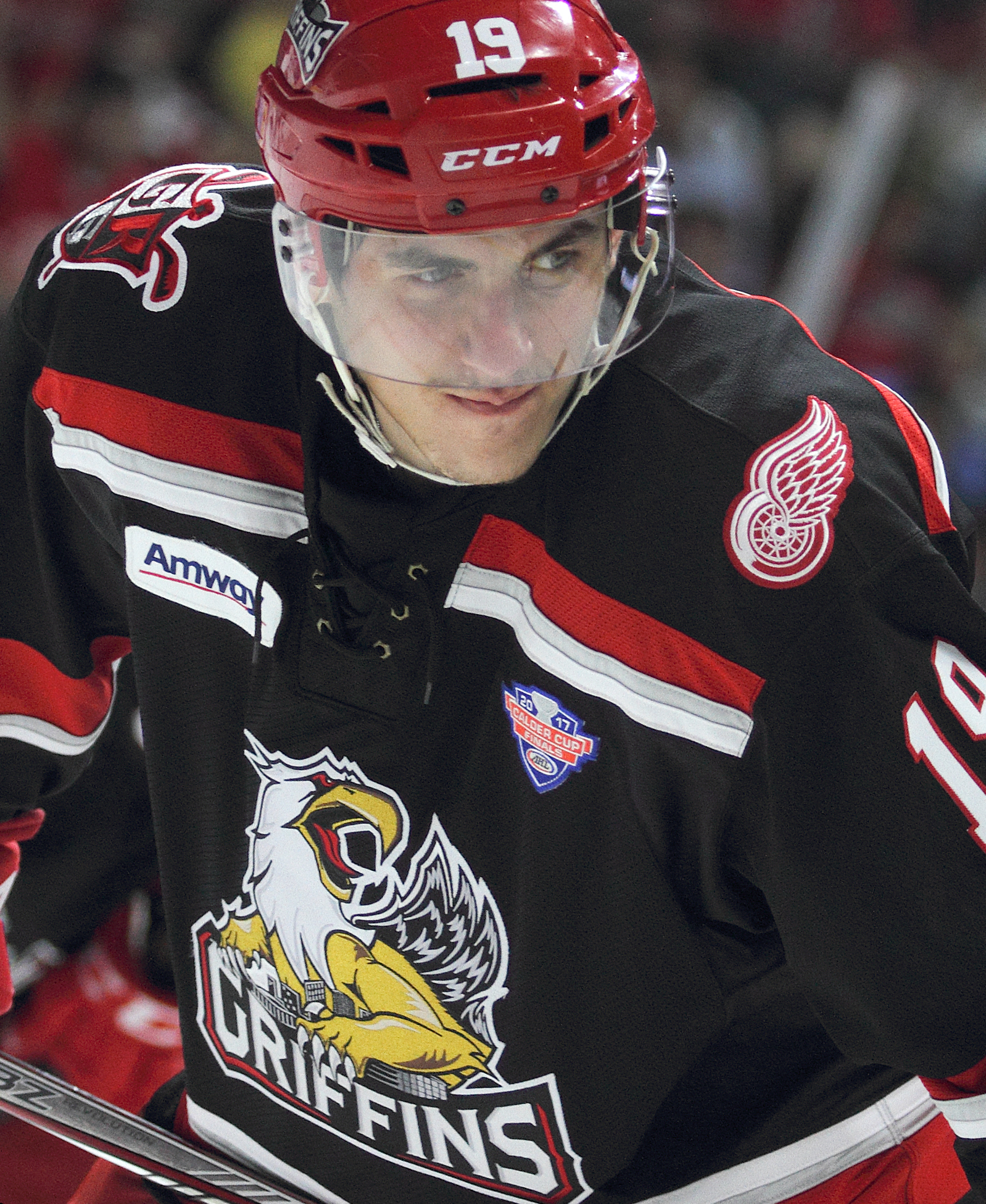 Photo: Mark Newman